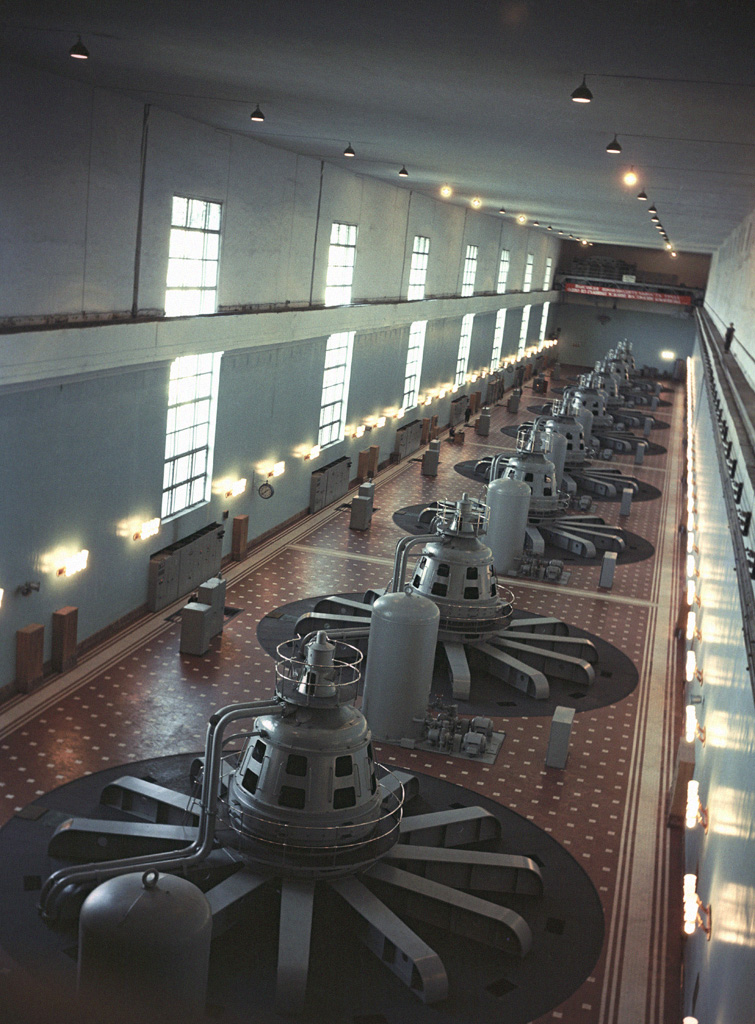 “Irkutsk hydroelectric power plant”. The turbine hall of the Irkutsk hydroelectric power plant.